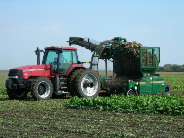 A sugar beet harvester. Morrison Farms, Bathgate, ND.